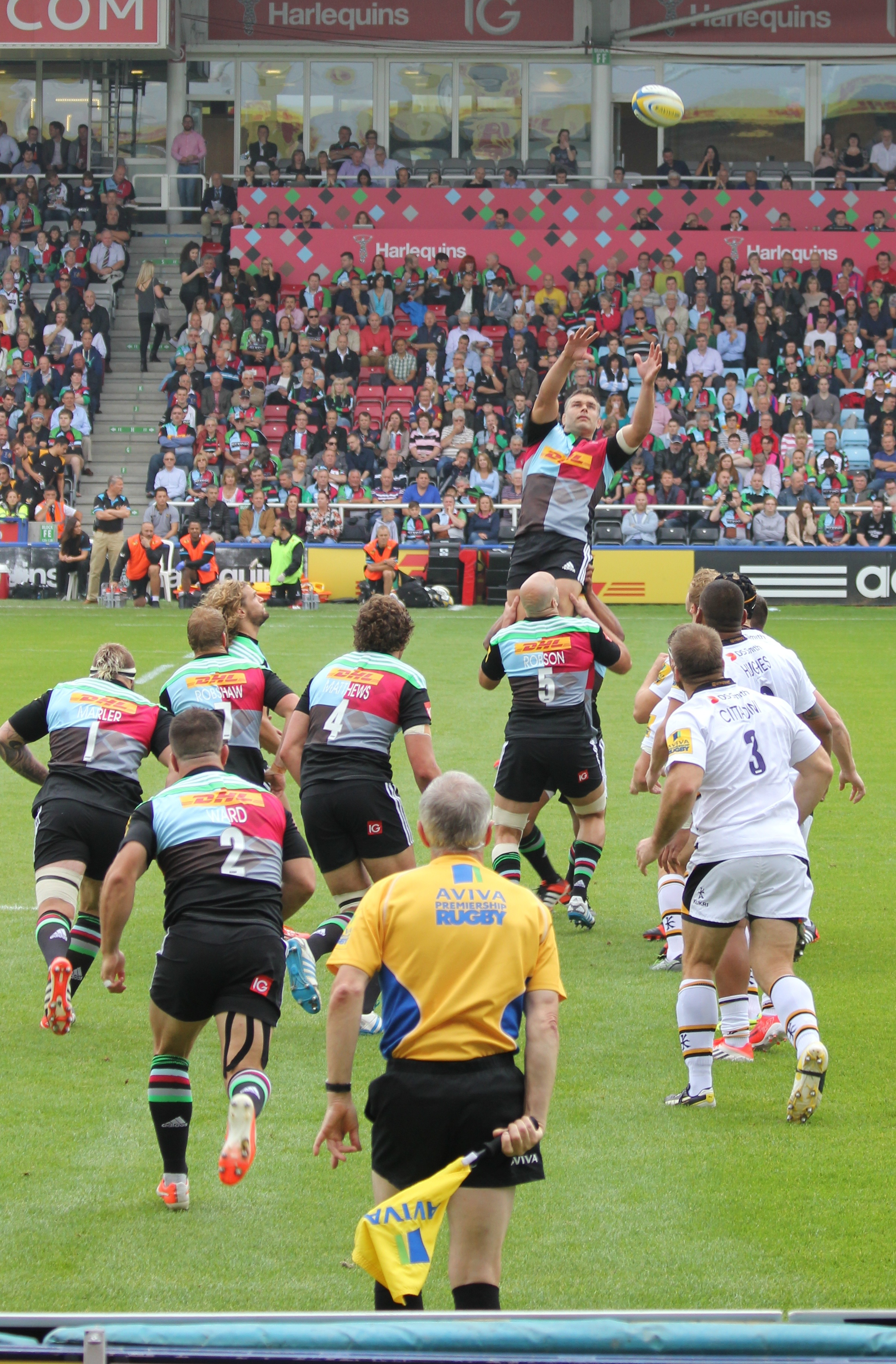 2014-15 English Premiership Harlequins vs Wasps, 20 September 2014, Twickenham Stoop.